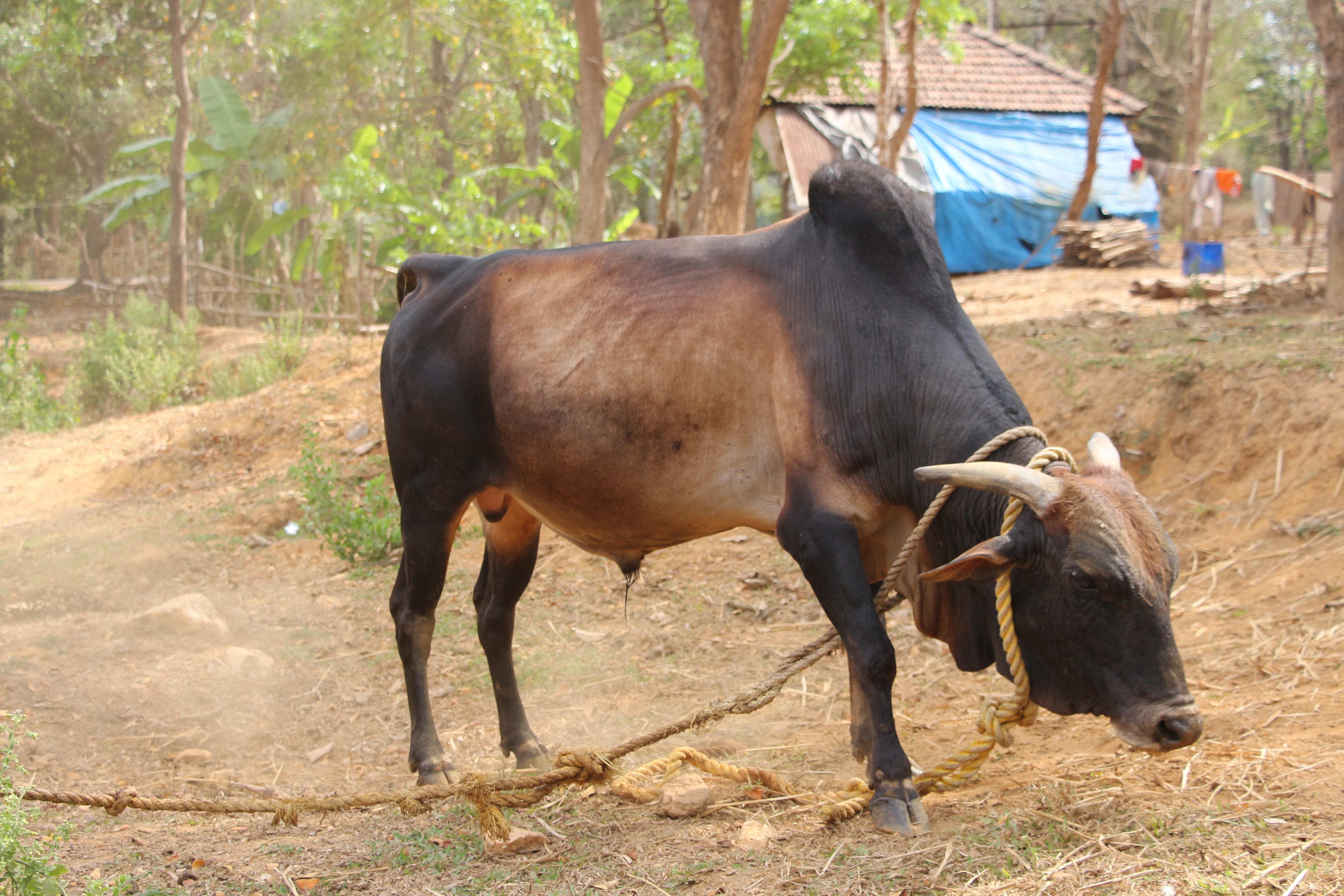 Indian cow breed Javari ಕನ್ನಡ: ಭಾರತೀಯ ಗೋತಳಿ ಜವಾರಿ